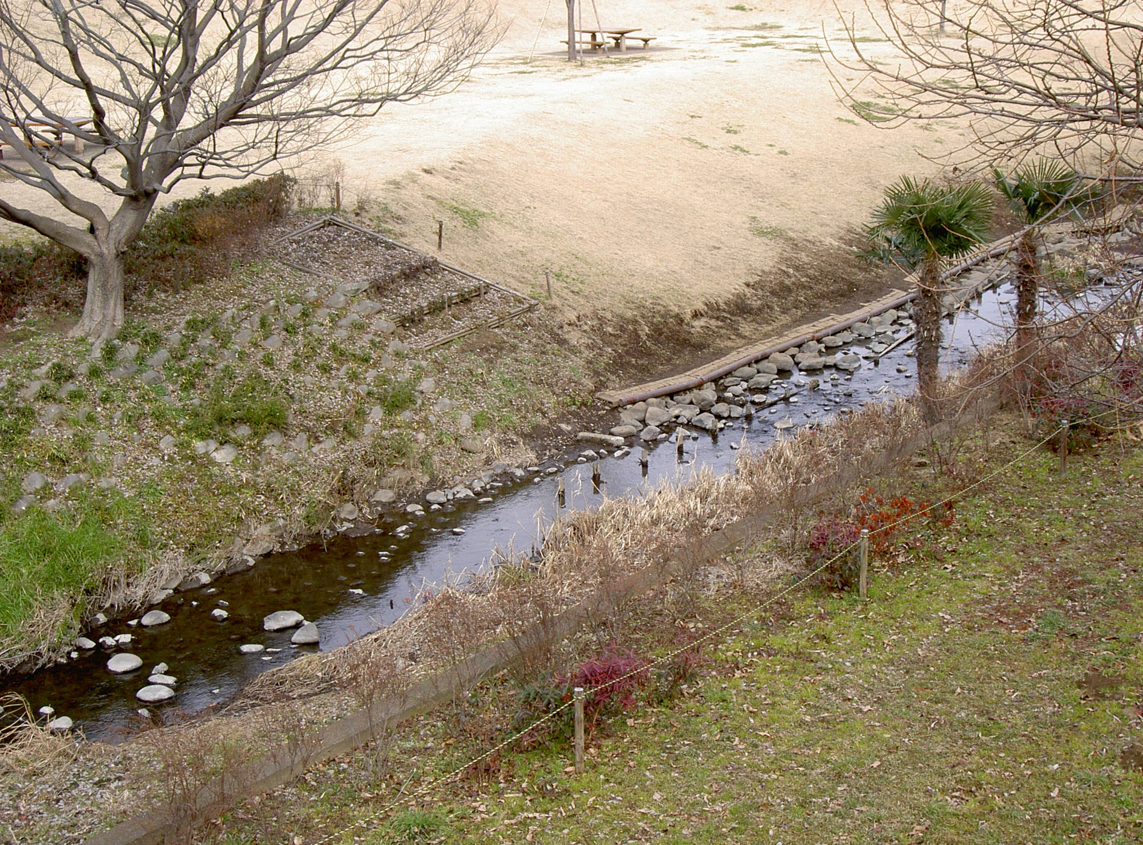 Hatogawa river in Sagami Sansen Koen, Ebina, Kanagawa, Japan.